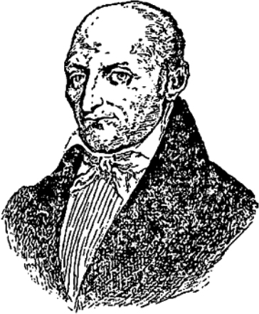 Jean-Baptiste Sauce (1755-1825).